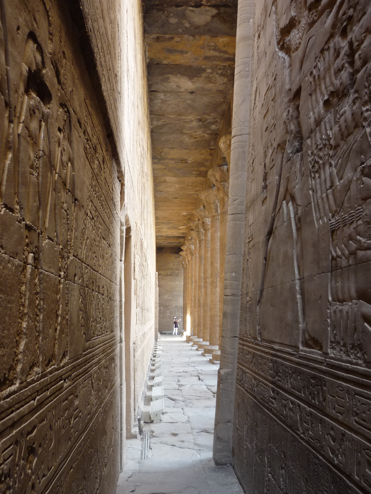 East colonnade of peristyl court from east ambulatory, temple of Edfu, Egypt